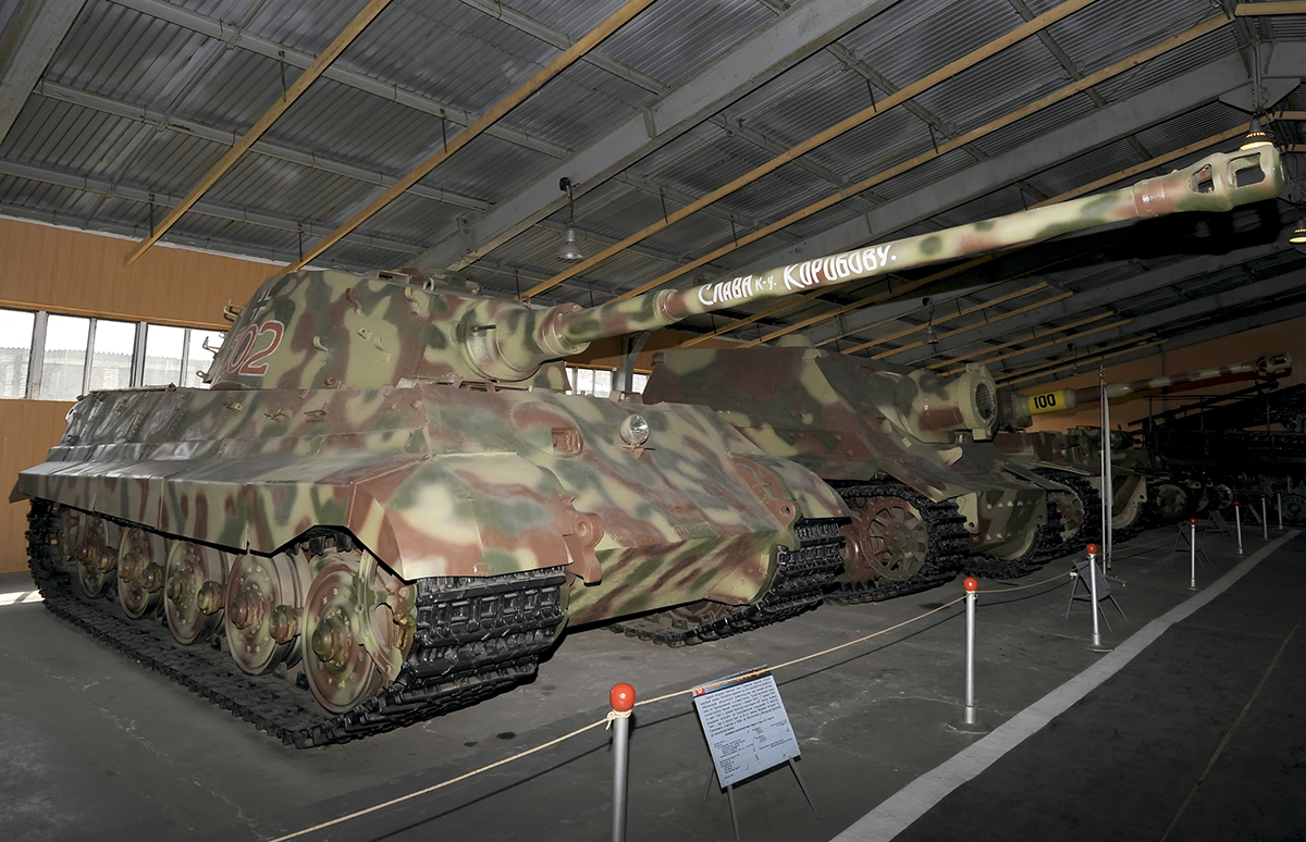 captured 13.08.44. 3rd battalion, 53rd guards tank brigade, 6th guards tank corps.